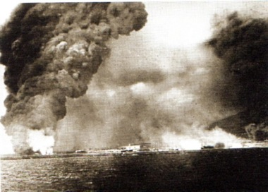 Novorossiysk harbour bombarded by the cruiser Midilli during the Black Sea Raid on 29 October, 1914.